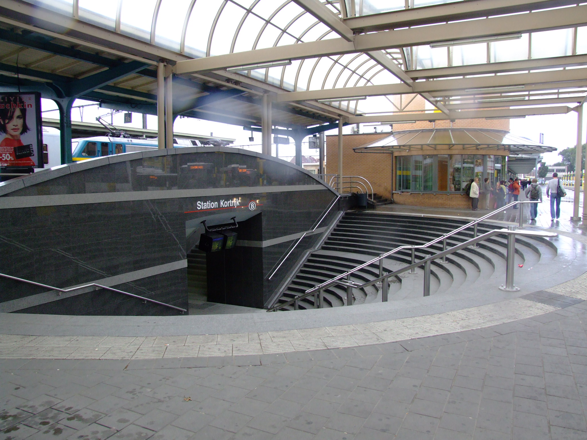 Kortrijk train station Belgium , the entrance. Image damaged by rain drops on filter. Reflections in black marble of bus station behind. - Google Maps - Google Earth